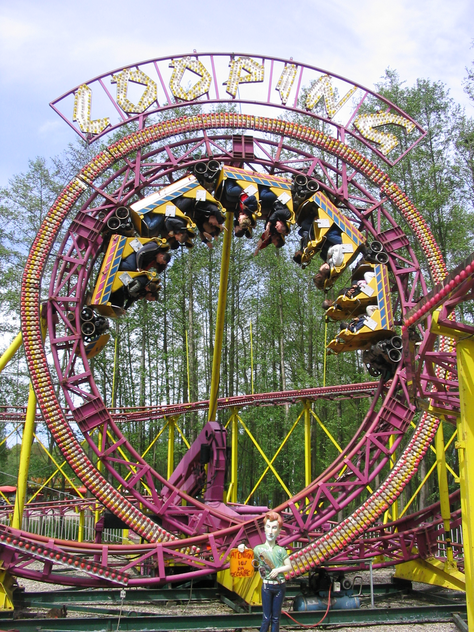 Powered roller coaster Looping, France